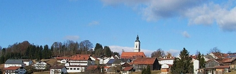 Kirchdorf im Wald, general view of the village from south with Parish Church of the Immaculate Conception.